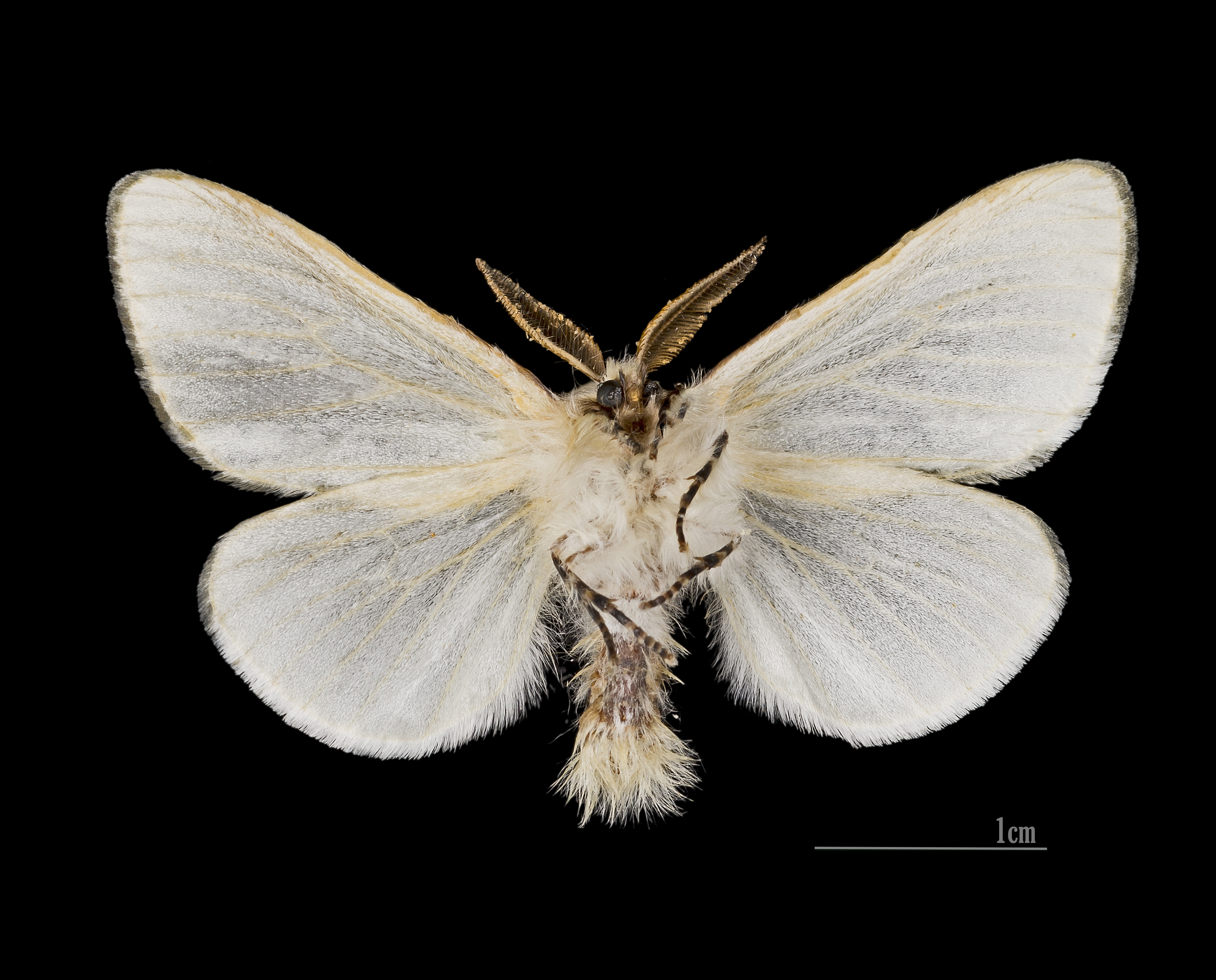 White Satin Moth. △ Ventral side